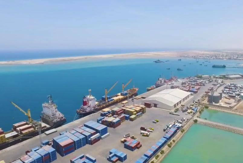 Berbera Port